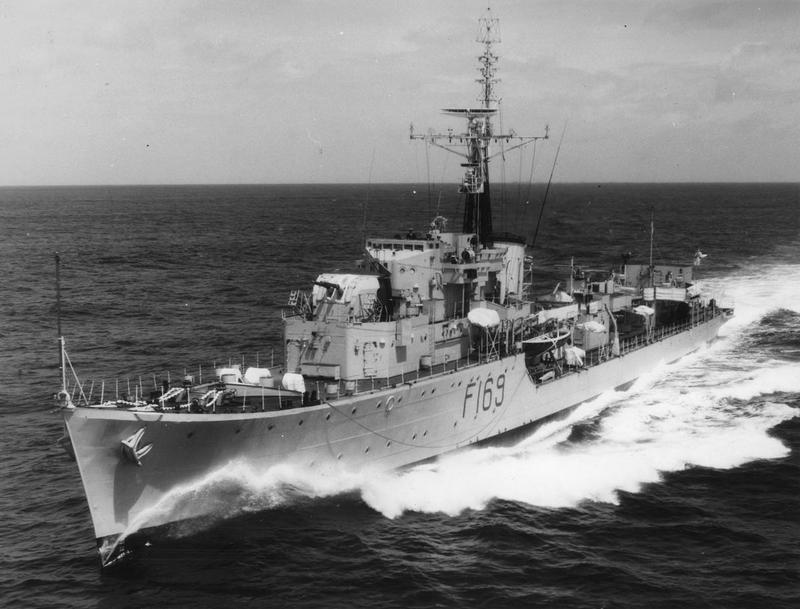 Type 16-class frigate HMS Paladin (F169), 18 July 1958 (HU 129941)